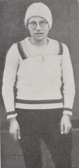 Pietje Feitsma at the age of 15